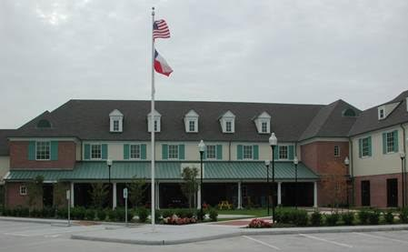 Bo's place - new building 2015